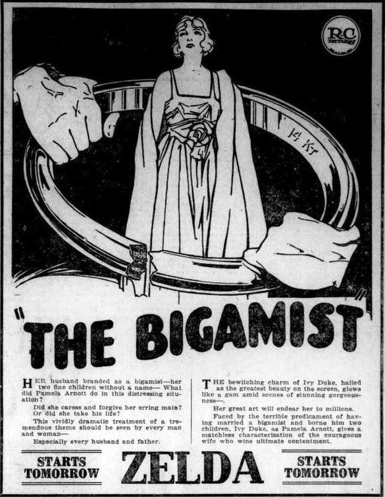 American newspaper advertisement for the British film The Bigamist (1921), on page 13 of the May 19, 1922 Duluth Herald.